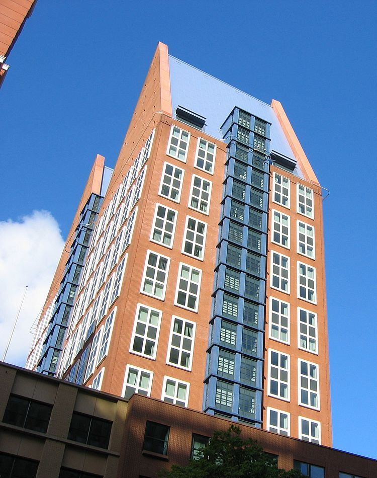 De Castalia towers (nicknamed 'de Puntmutsen'), The Hague